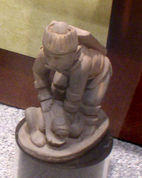 A reproduction of the "Conquering Warrior" Missouri flint clay effigy pipe found at the Spiro Mounds site, on display at the Chucalissa Indian Village.